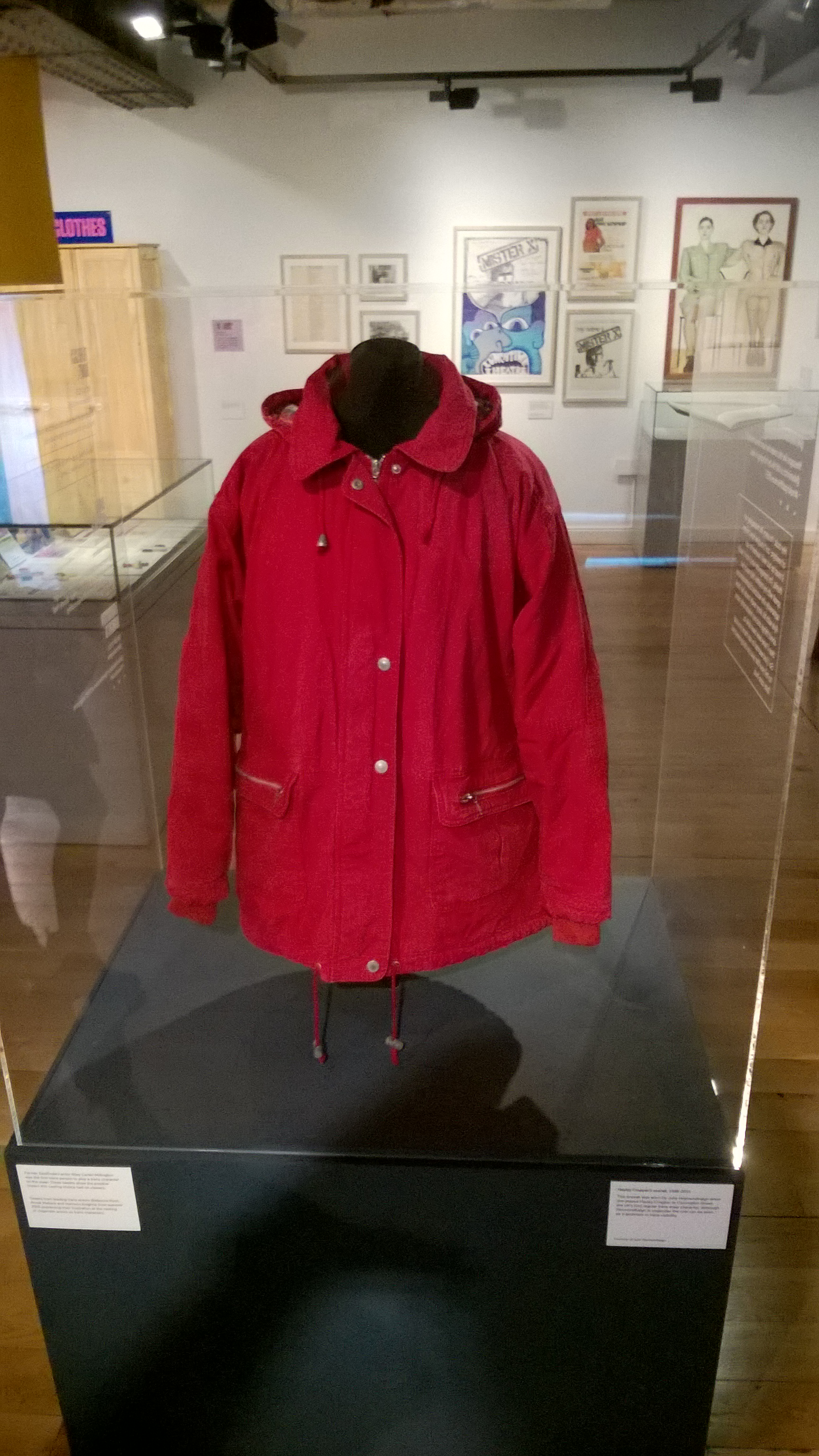 Hayley Cropper's anorak, in the People's History Museum